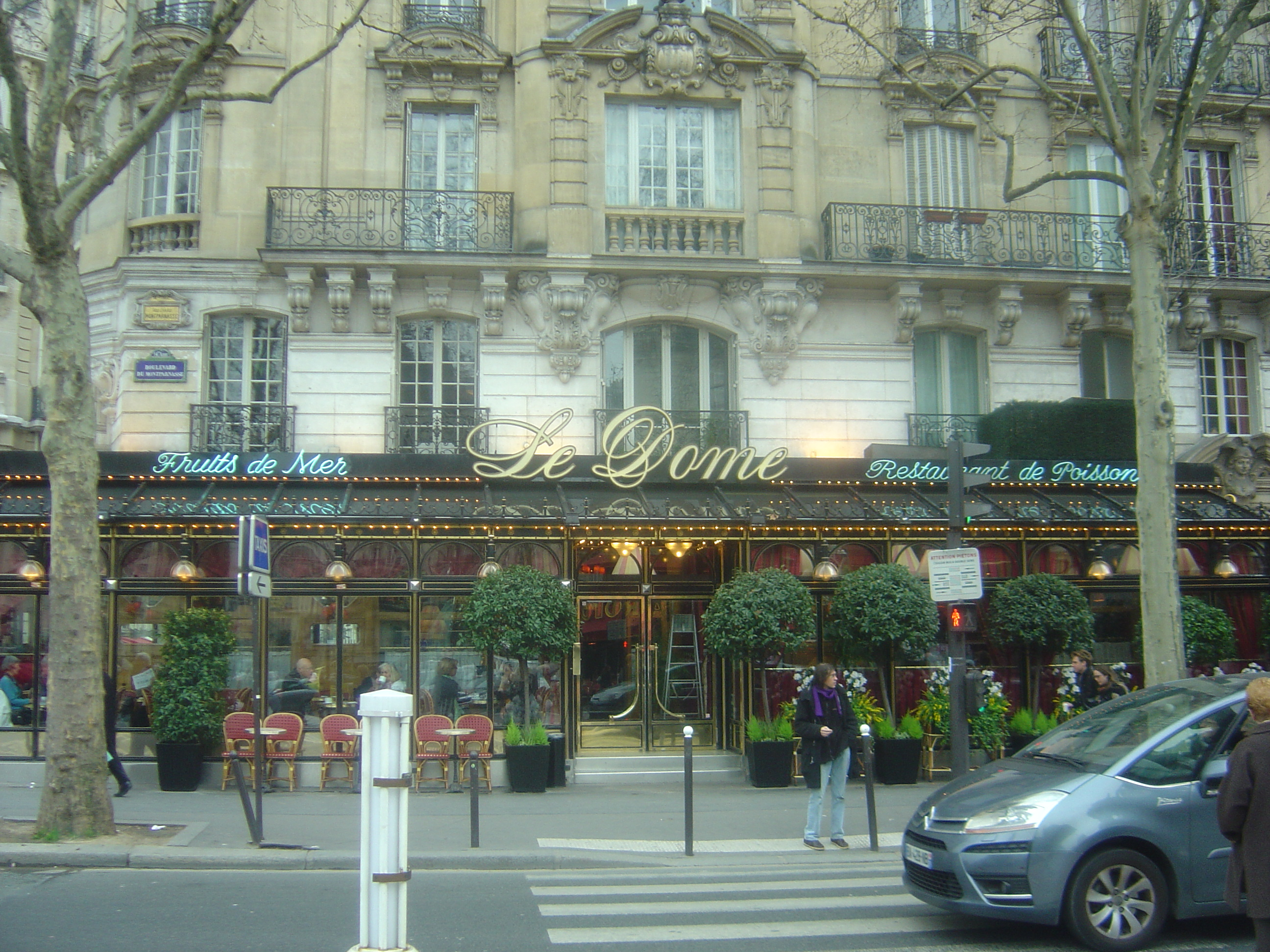 Cafe Le Dome, Paris